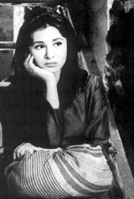 Faten Hamama in Al-Haram. Promotional photo from here [1]